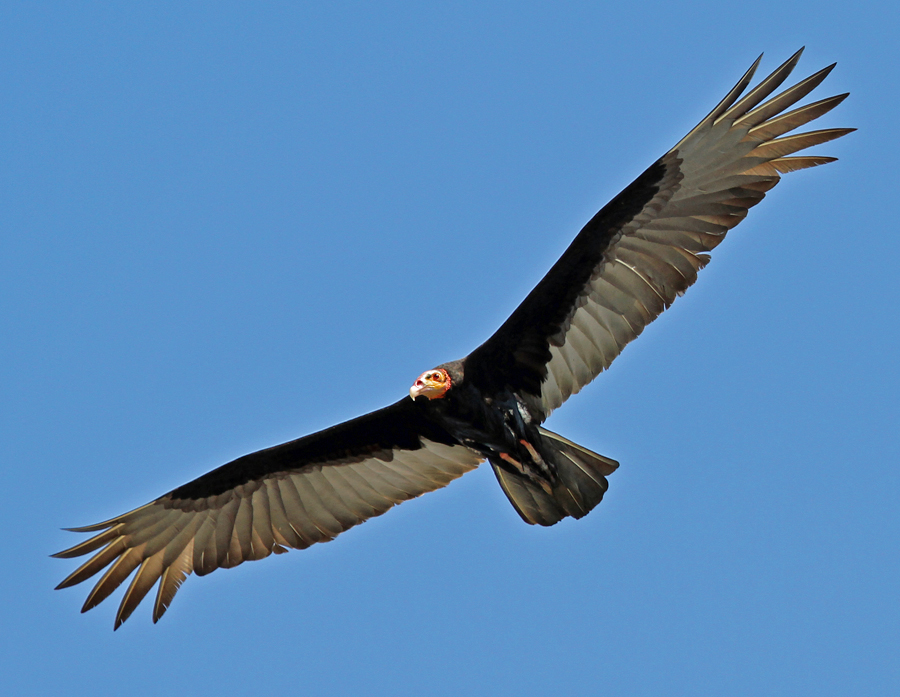 Brazil, Amazonas, Parintins.